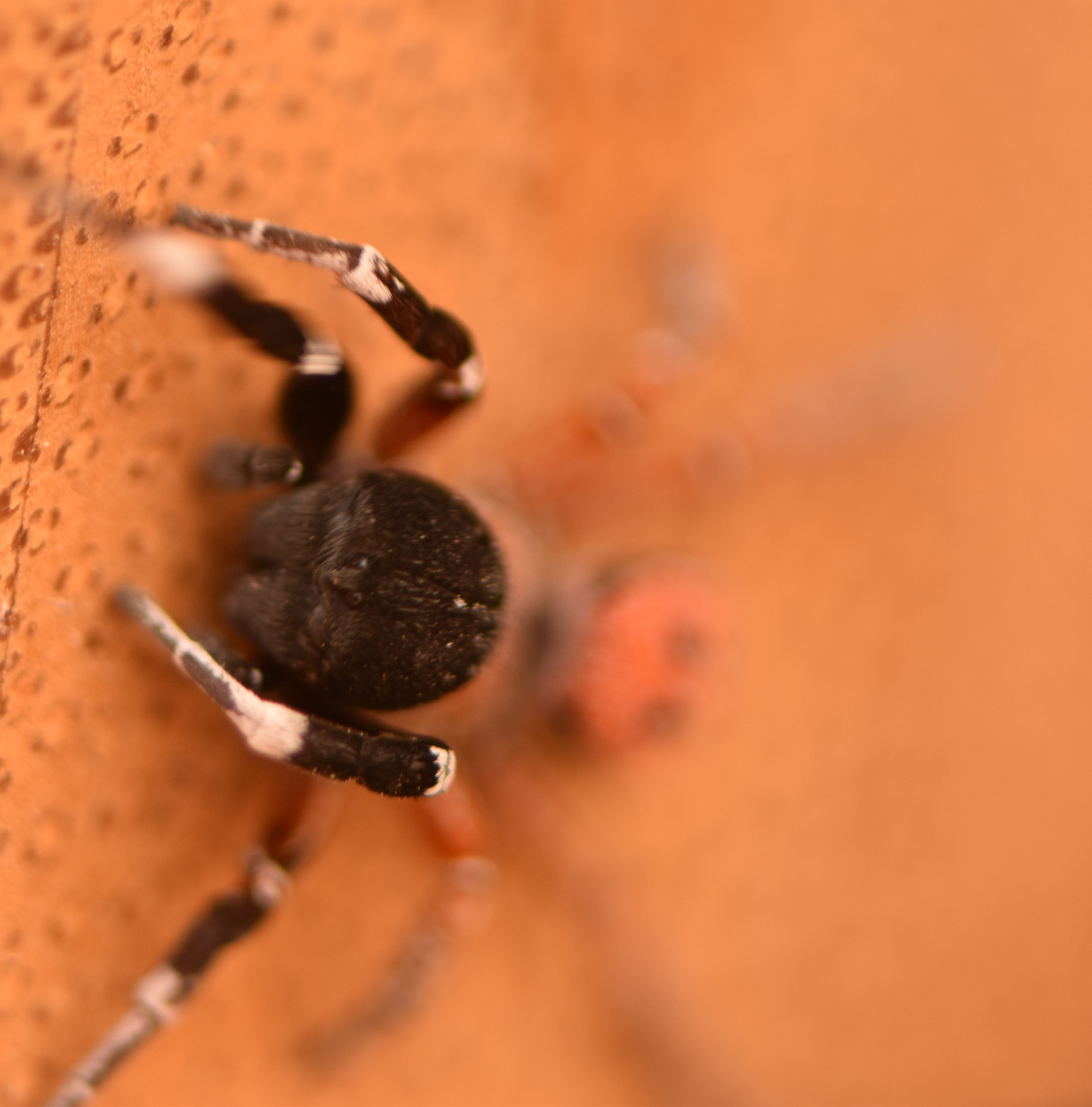 Image of Eresus solitarius